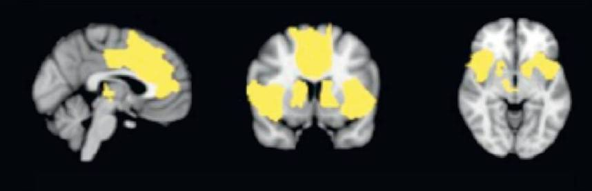 saliencenetwerk